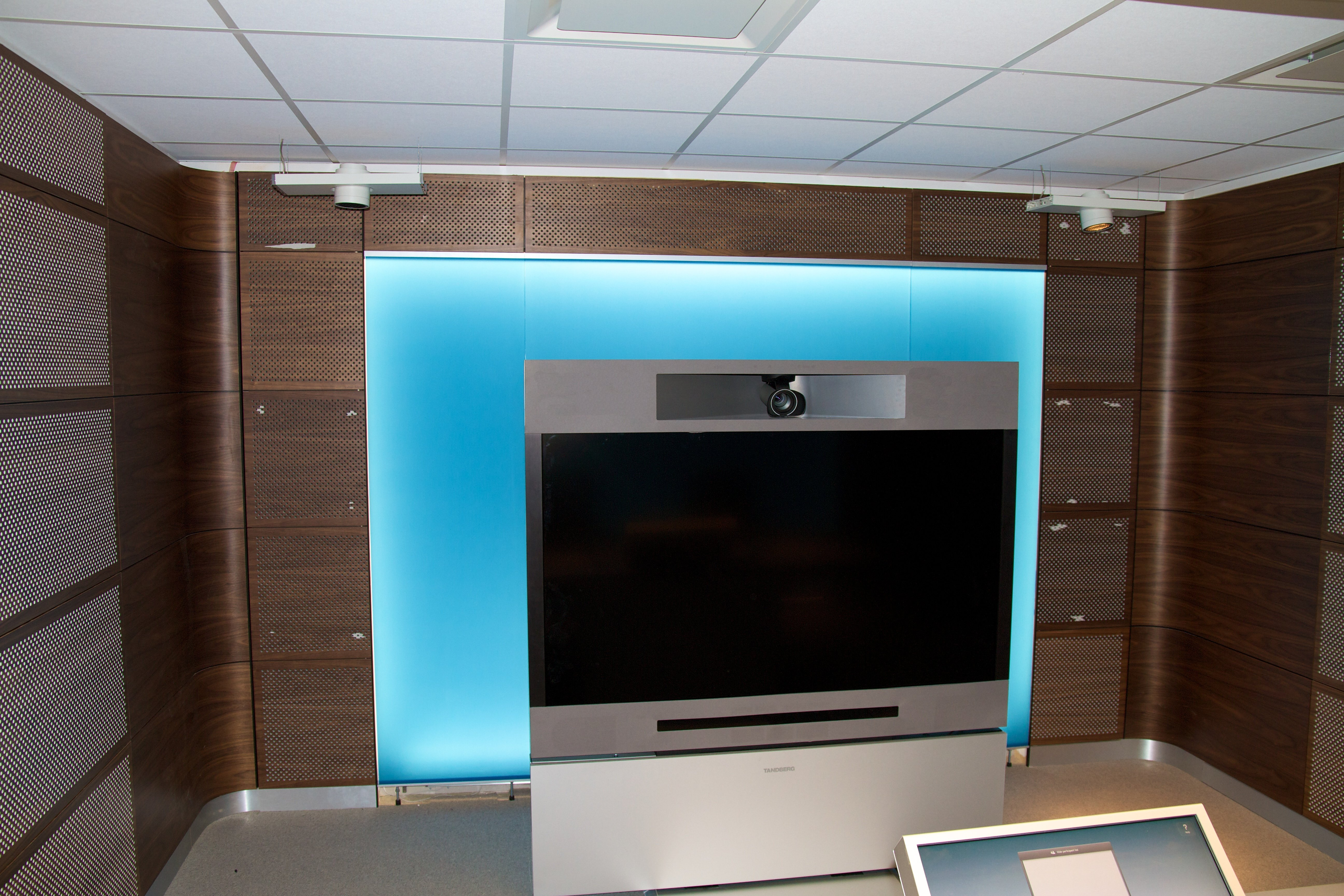 TANDBERG Telepresence T1.